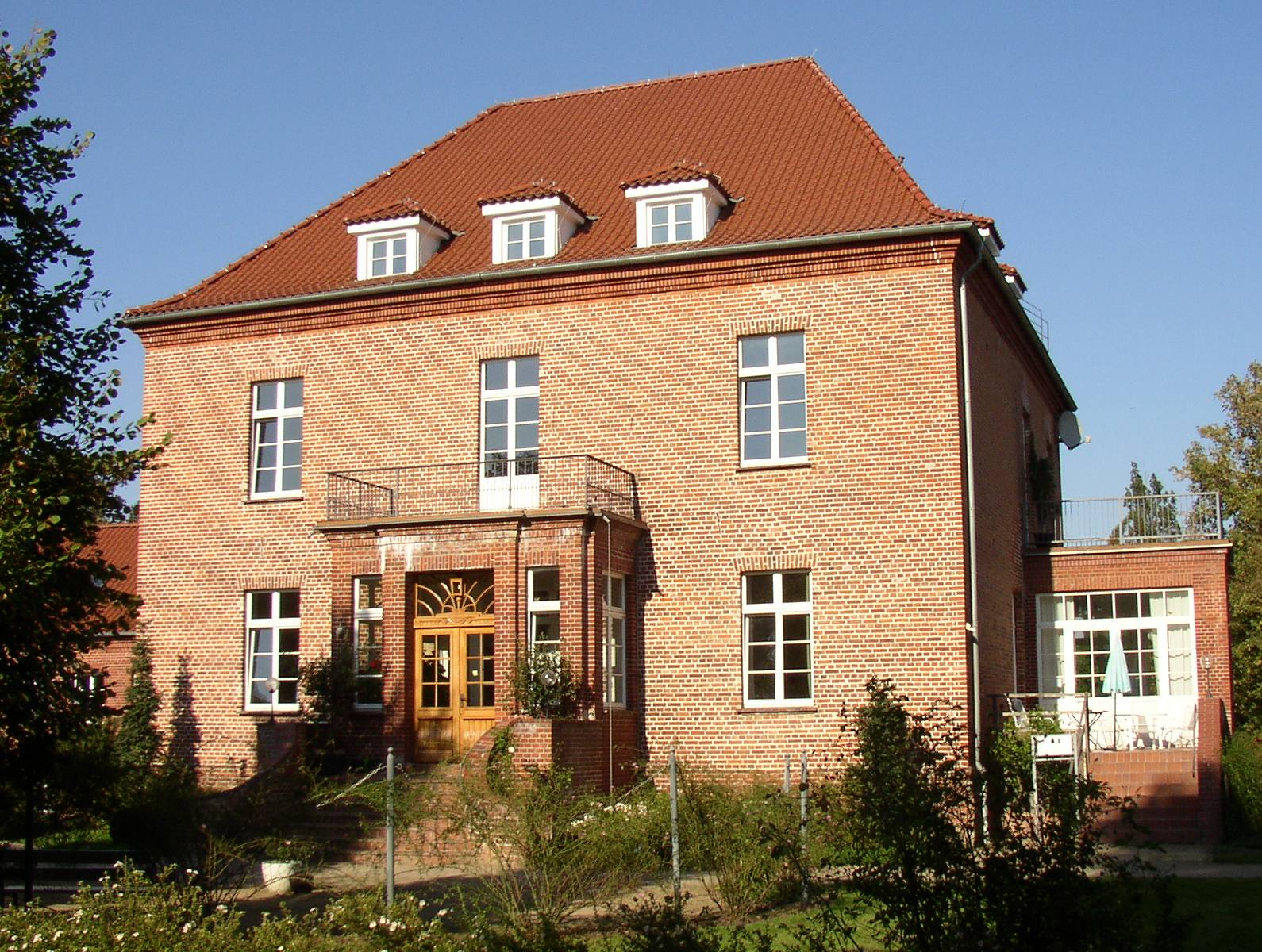 Gottin manor in Mecklenburg-Western Pomerania, Germany